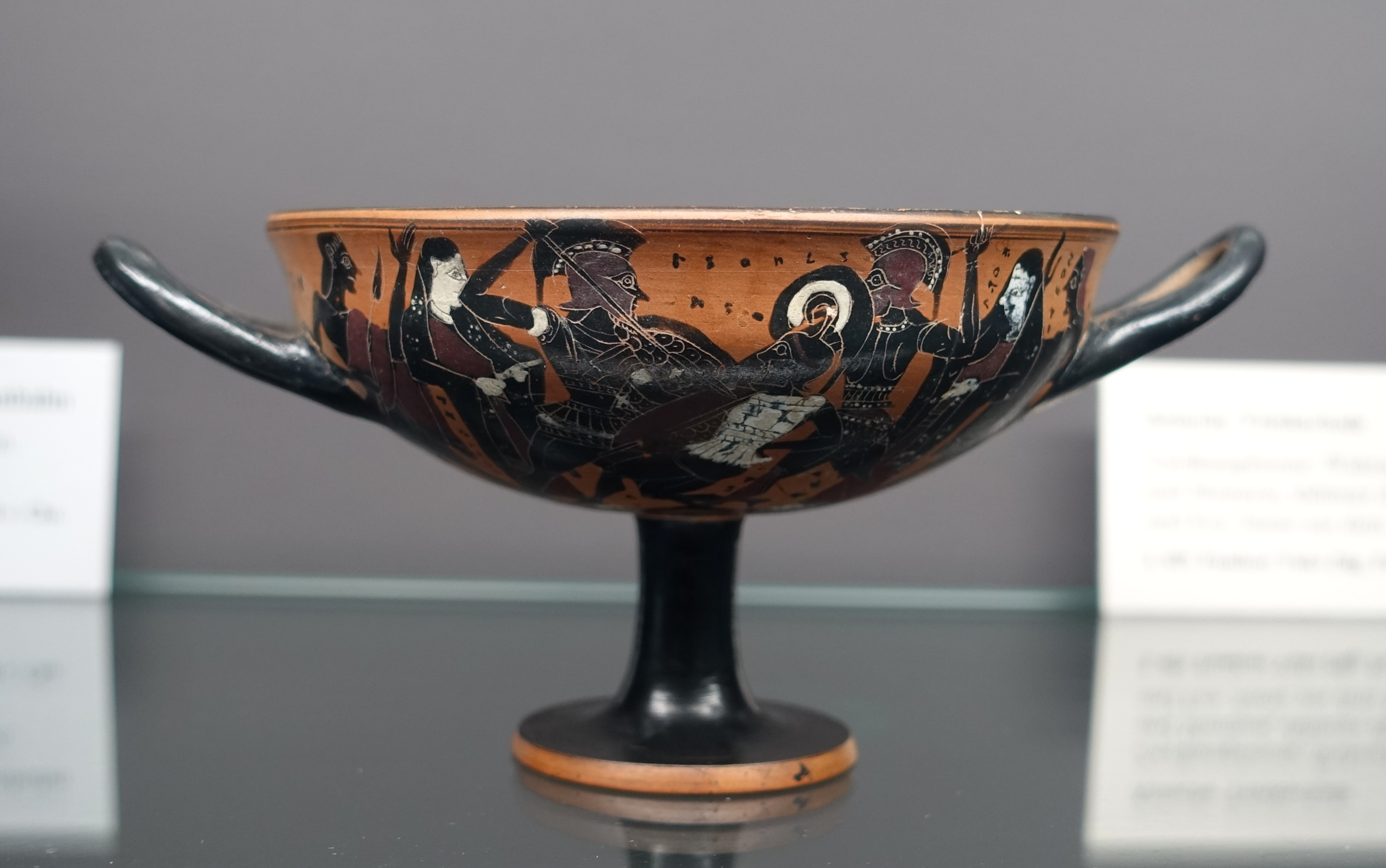 Exhibit in the Martin von Wagner Museum - Würzburg, Germany.